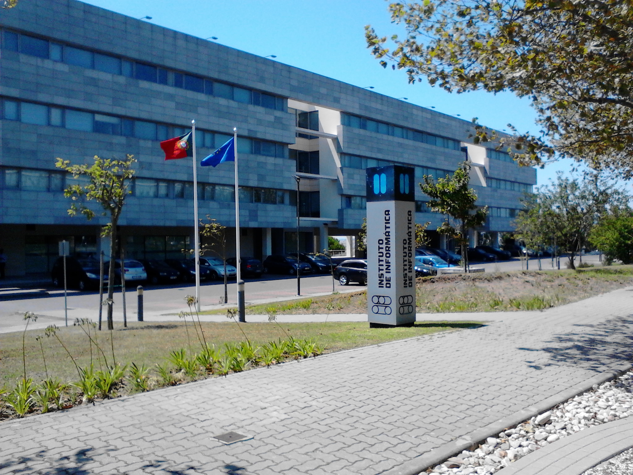 Instituto de Informática at Taguspark from other perspective